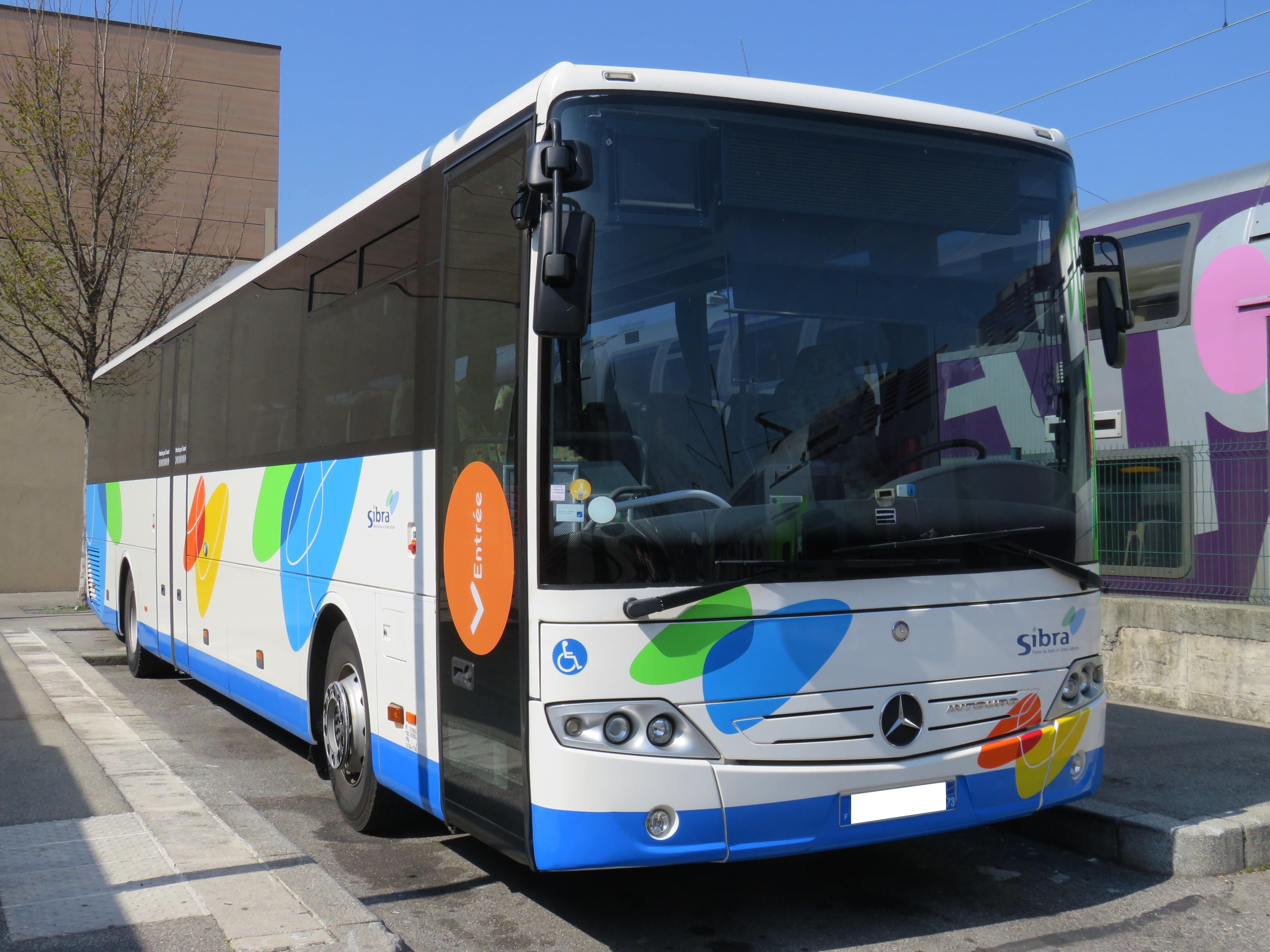 A Mercedes-Benz Intouro (Loyet) parked at the train station (Annecy, France) on March 28, 2019.